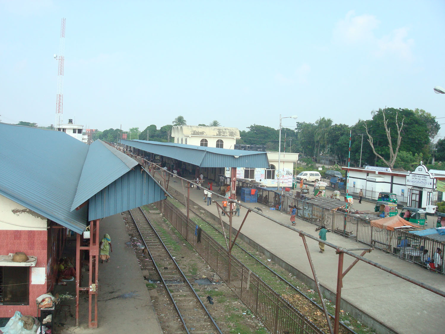 Akhaura Railway Station